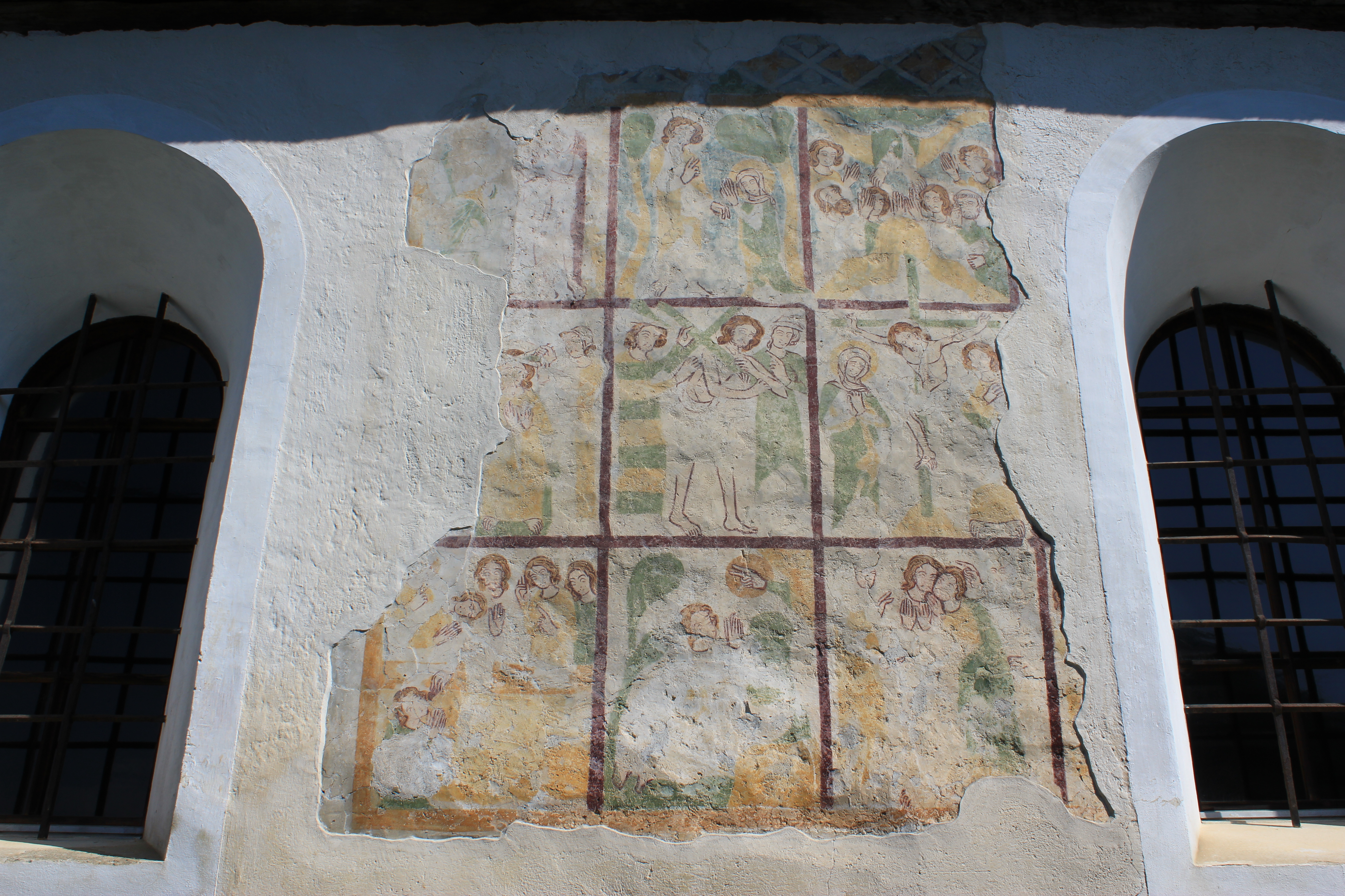 Church of Oberbuch in the community of Gmünd - detail